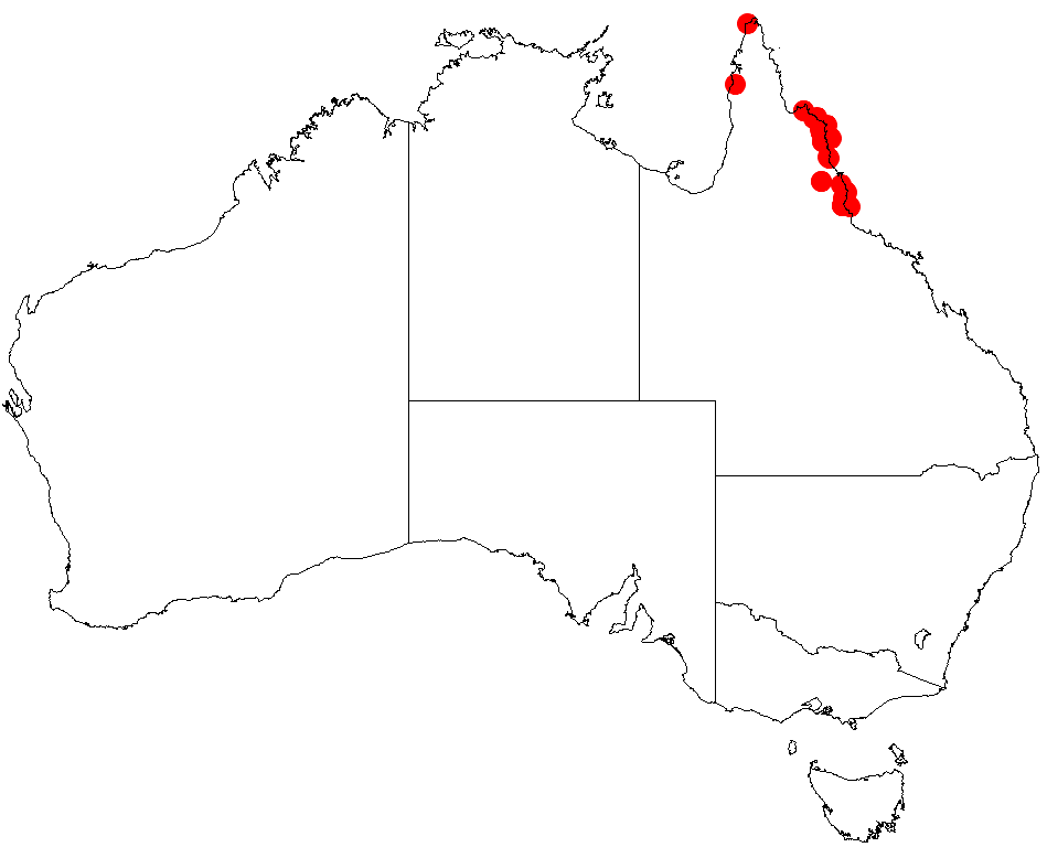 Acacia pubirhachis occurrence data from Australasian Virtual Herbarium downloaded from on December 8 2018